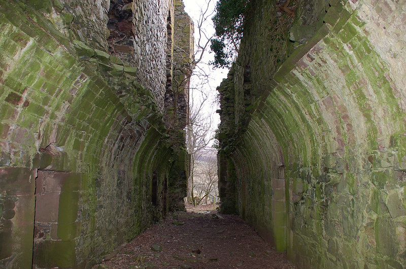 Arched passageway, Drochil Castle (2) An eastward view along the central corridor.